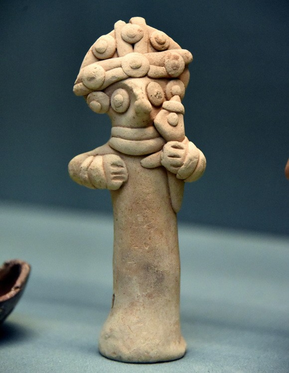 Female pillar figurine holding a child from Carchemish, Outer Town, House B. The British Museum, London (museum No.108757)